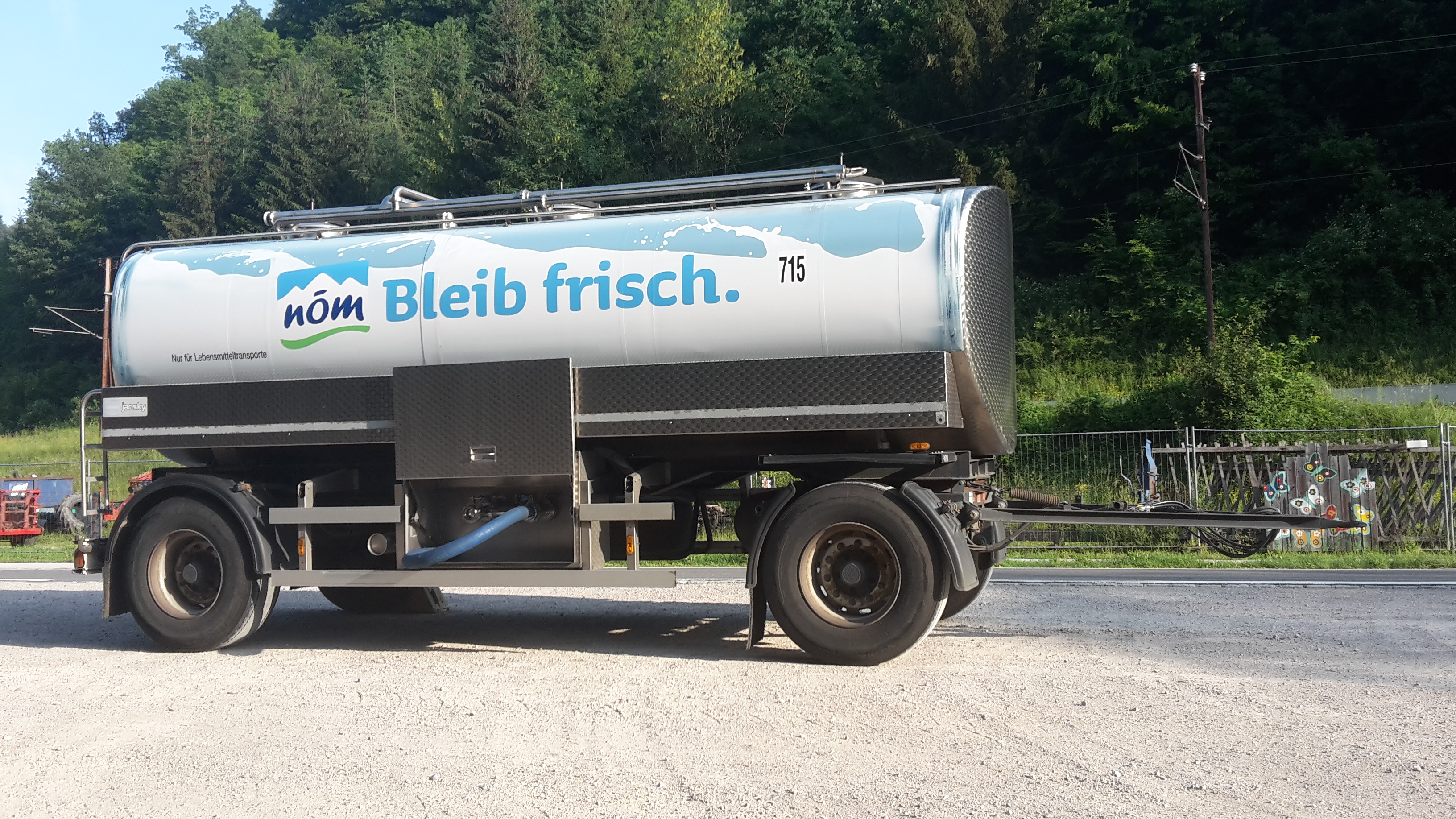 NÖM-Trailer at Grassermühle in Frankenfels, Austria